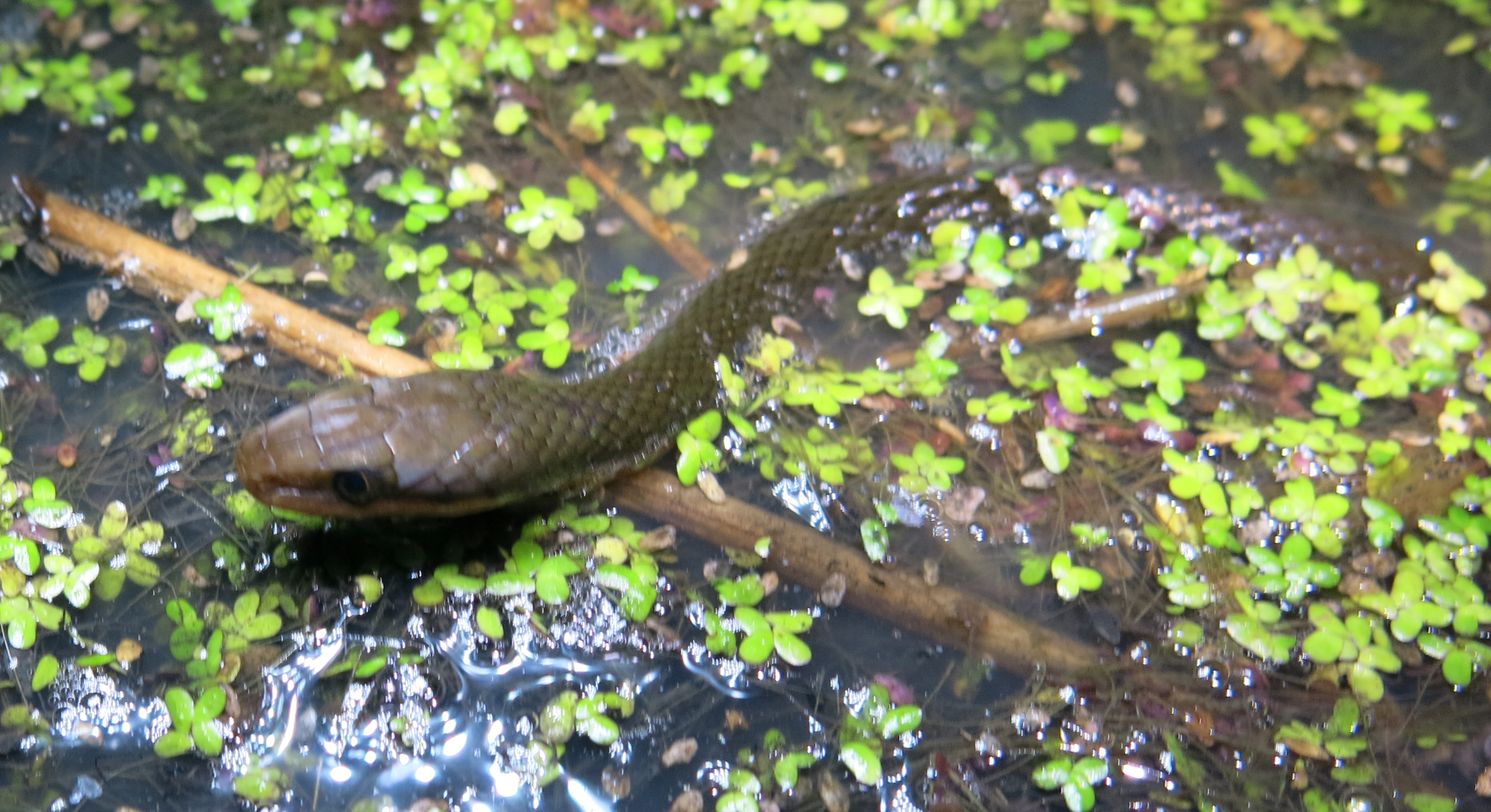 Lycodonomorphus rufulus in situ